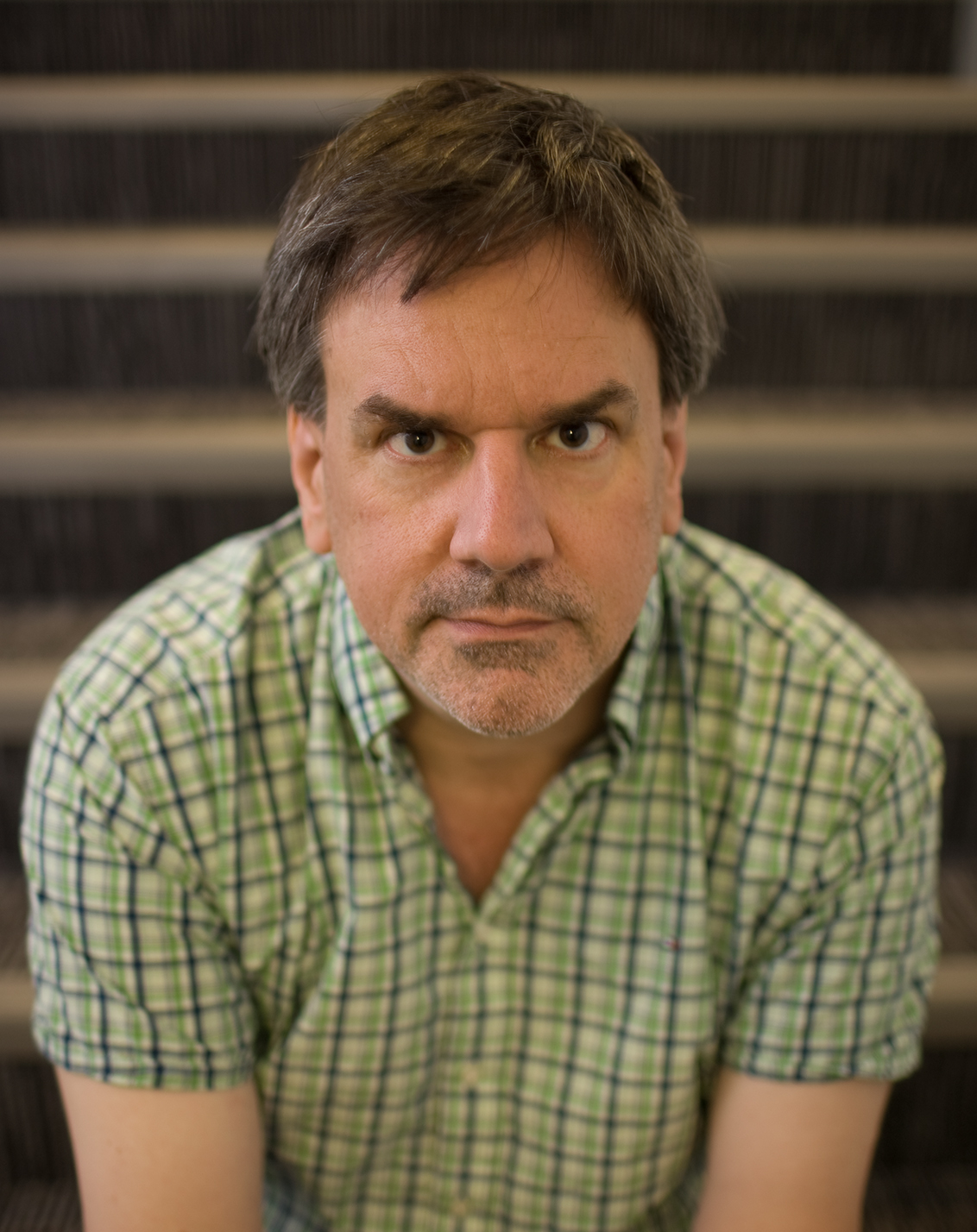 Photograph of Ron Gilbert, taken in July 2013.